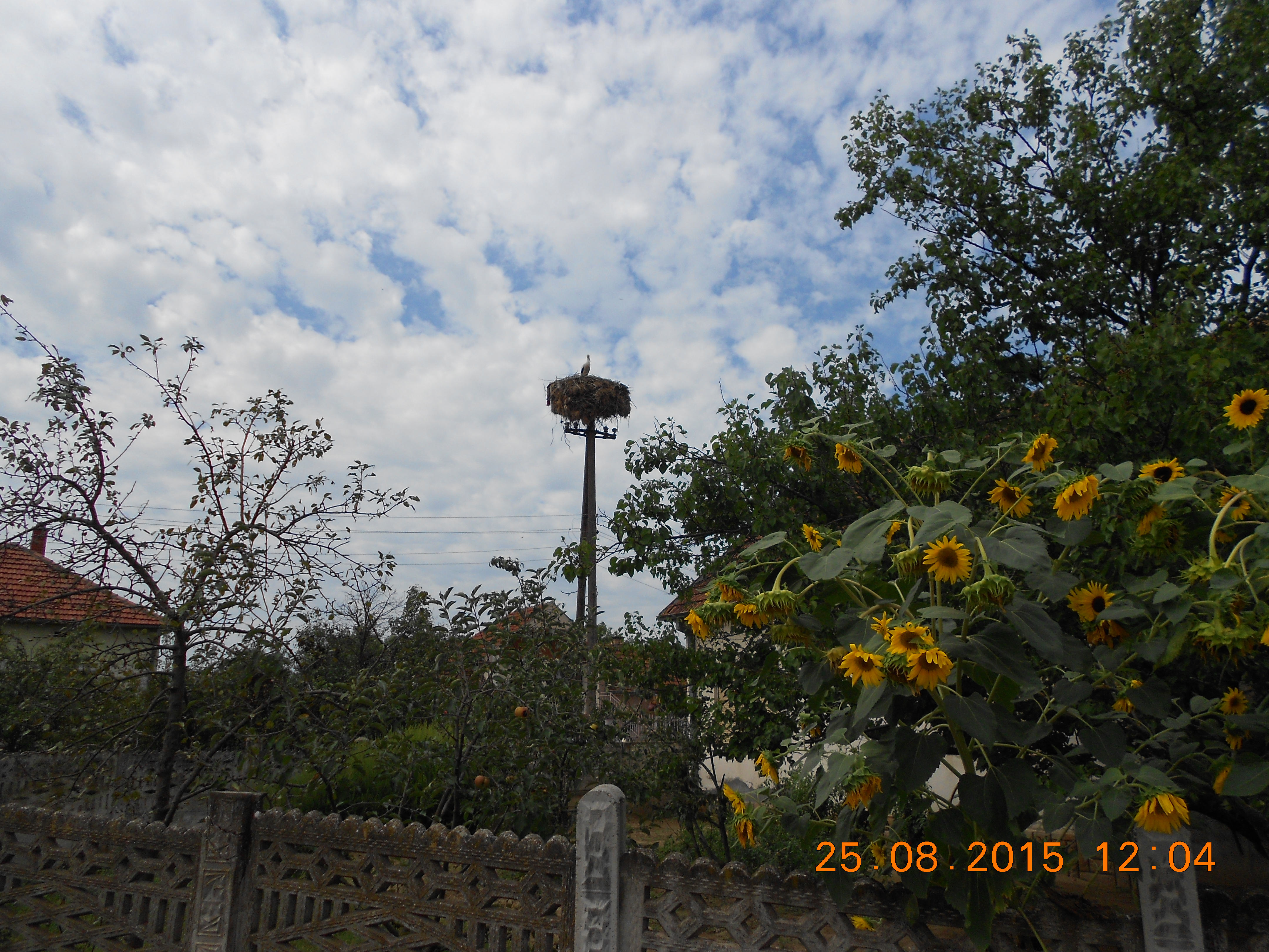 stork, Donji Adrovac